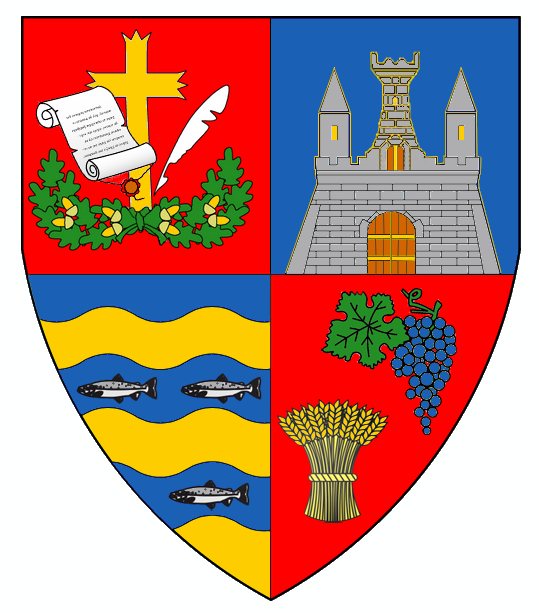 Modern proposition of the "Muzeul Țării Crișurilor" for a Coat of Arms of the Crișana region, composed with the heraldic elements of the coat of arms of the Arad & Bihor counties.